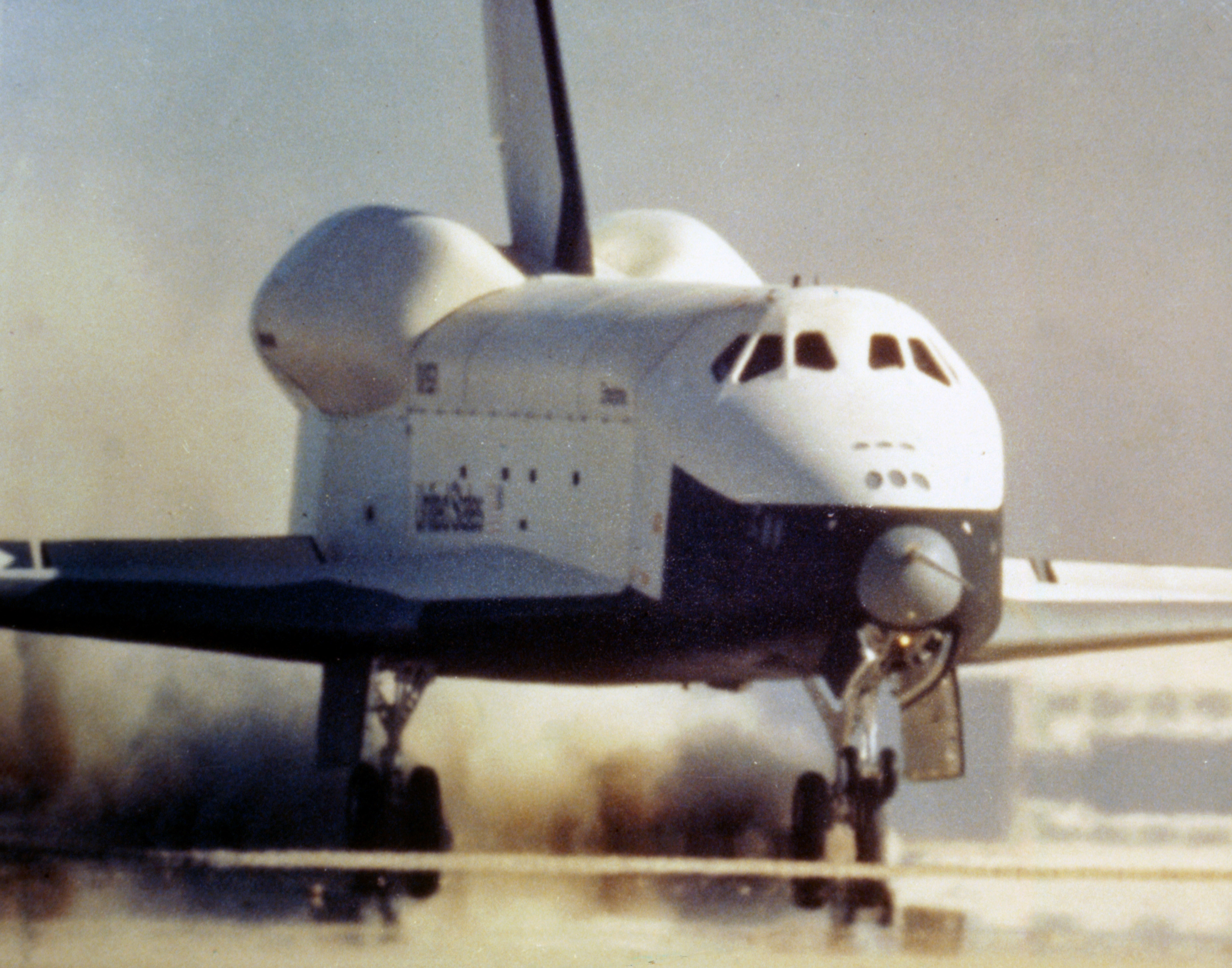 Space Shuttle Enterprise lands on runway 17 at Edwards Air Force Base for Approach and Landing Test (ALT) 2.